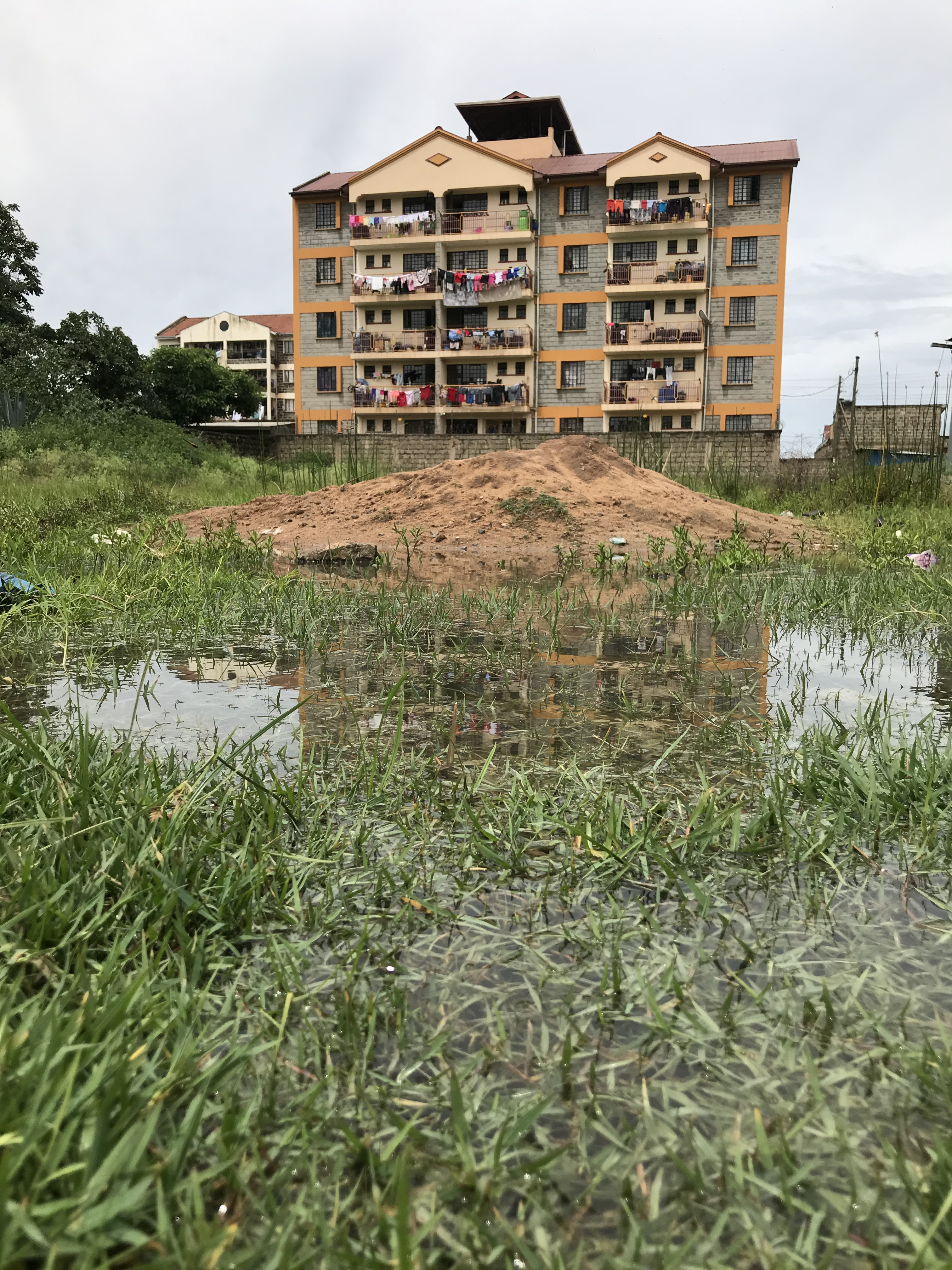 This is an image with the theme "Africa on the Move or Transport" from: Kenya